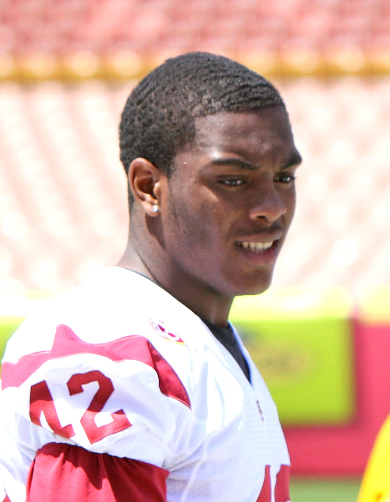 The USC defense dominated the Trojans' offense in the 2011 Spring Game, winning 42-29 at the Los Angeles Memorial Coliseum. (Shotgun Spratling/Neon Tommy)